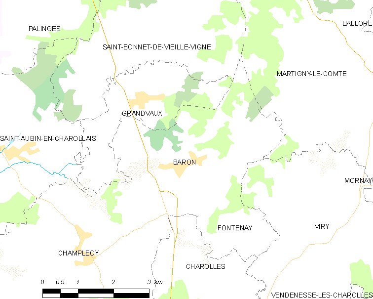 Map of French municipality